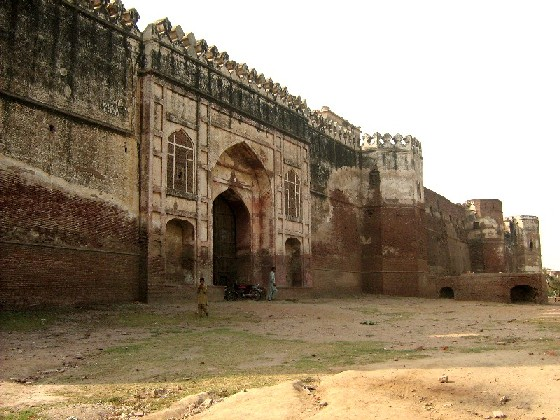 Main entrance of Sheikhupura Fort